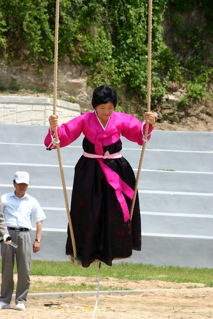 "The 5th Women Folk Plays for Dano Festival" held in a yard of the Andong Folk Museum in Andong City, Gyeongsangbuk-do, South Korea on June 11, 2007.